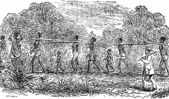 The image is a slave coffle where men, women and children were bound together and in the process of transport to a place where they will be sold